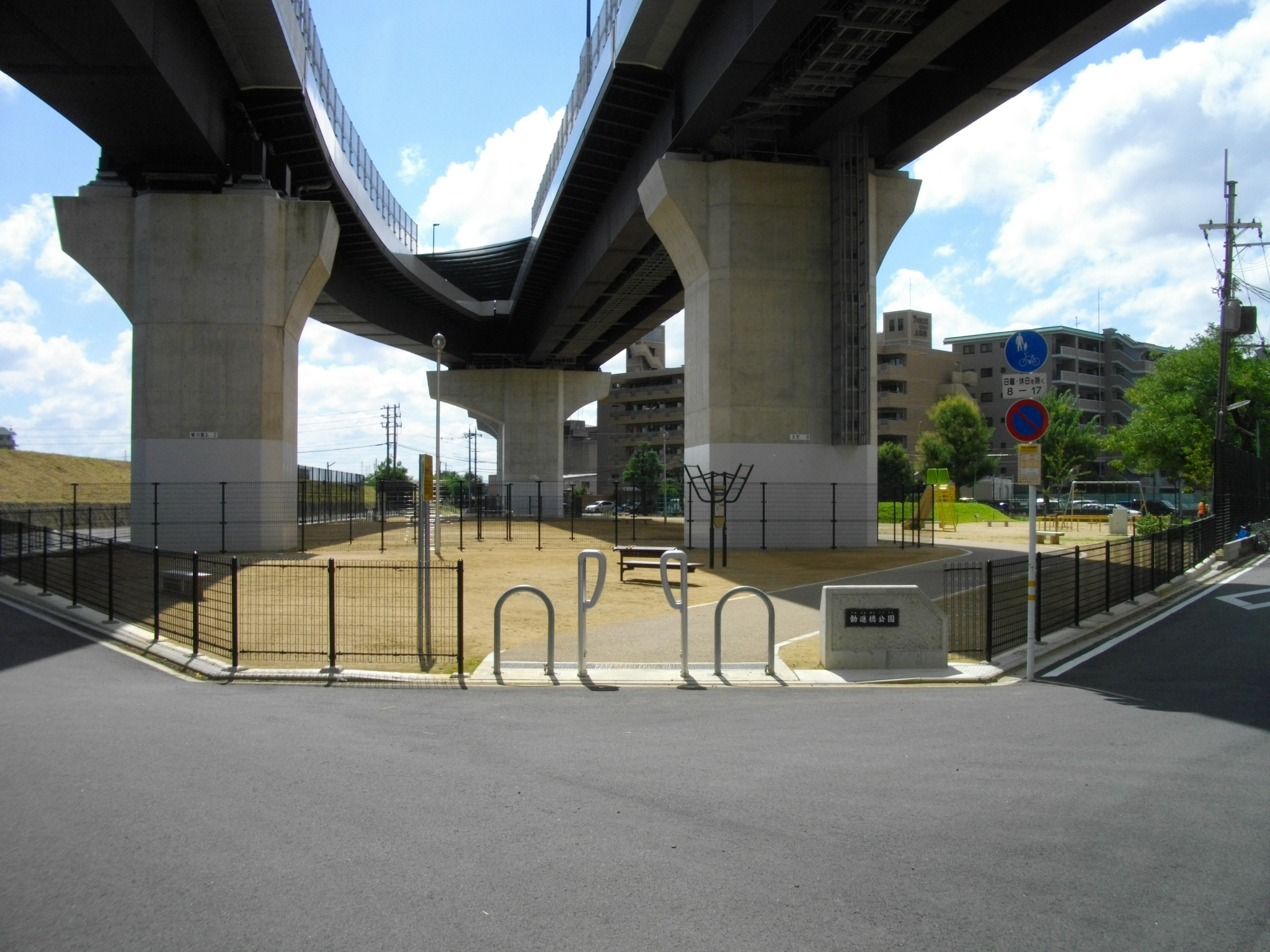 Kanjinbashi Park